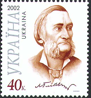 Stamp of Ukraine